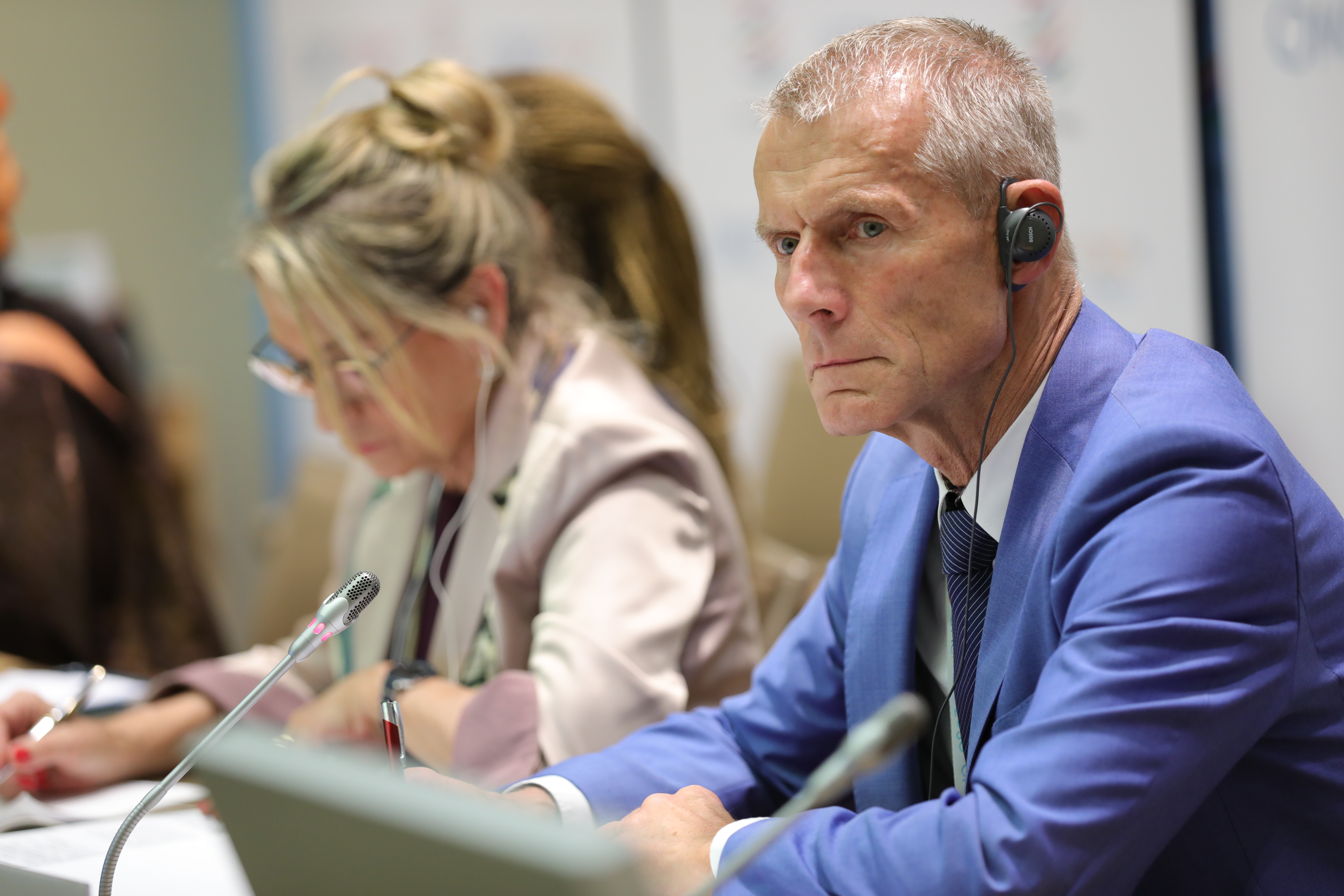 Helmut Schulz at WTO Public Forum 2018- Trade 2030